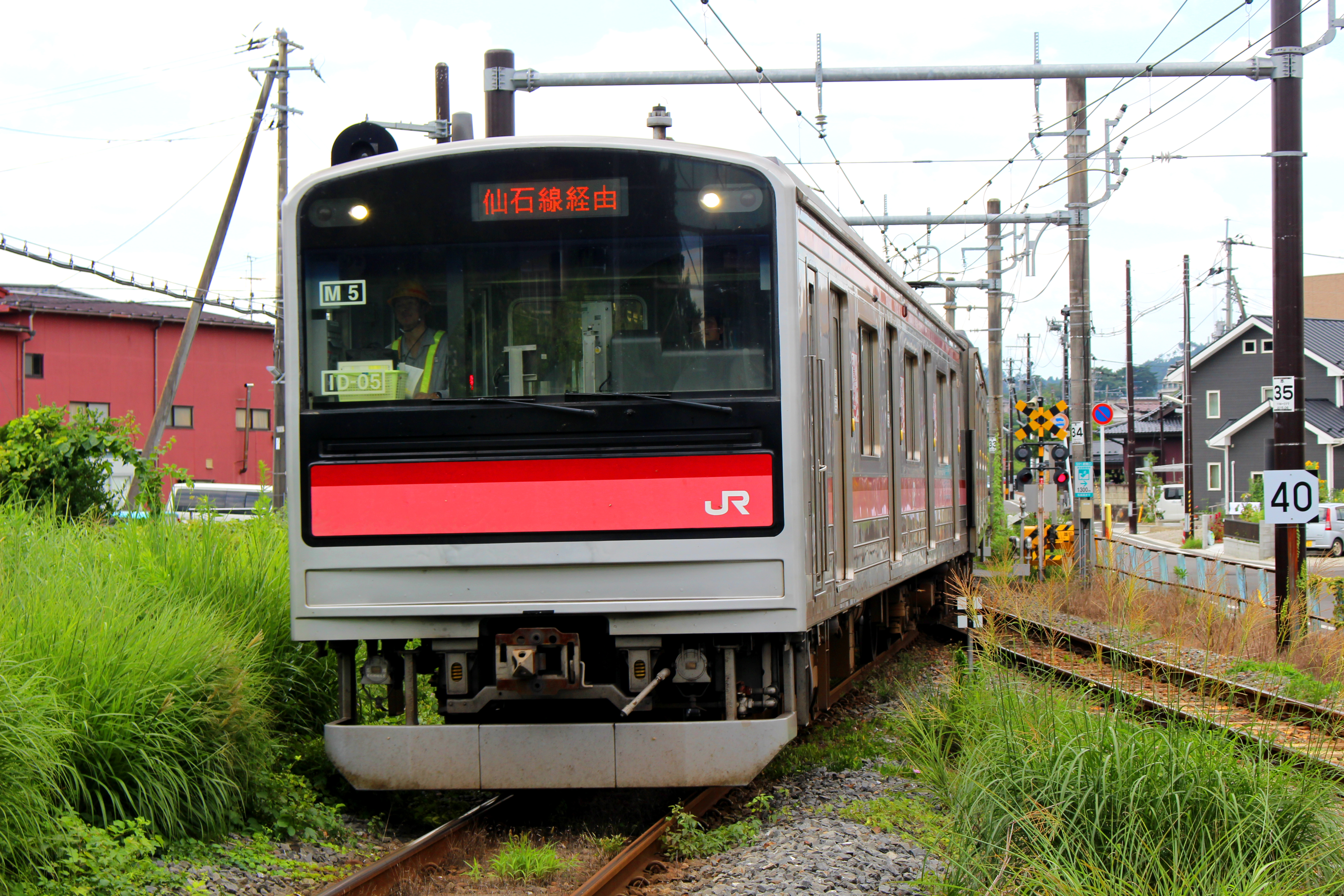 JR East 205 series EMU set M05 on the Senseki Line